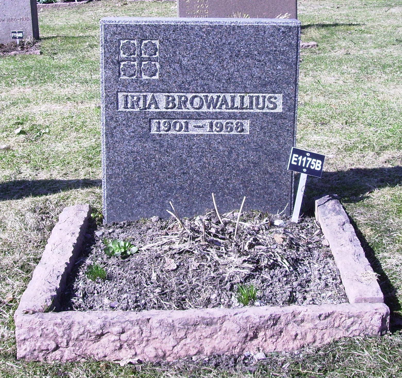 Picture of Irja Browallius grave at Lidingö kyrkogård